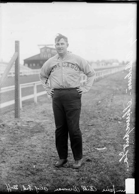 Depicted person: Bill Brennan – American baseball umpire